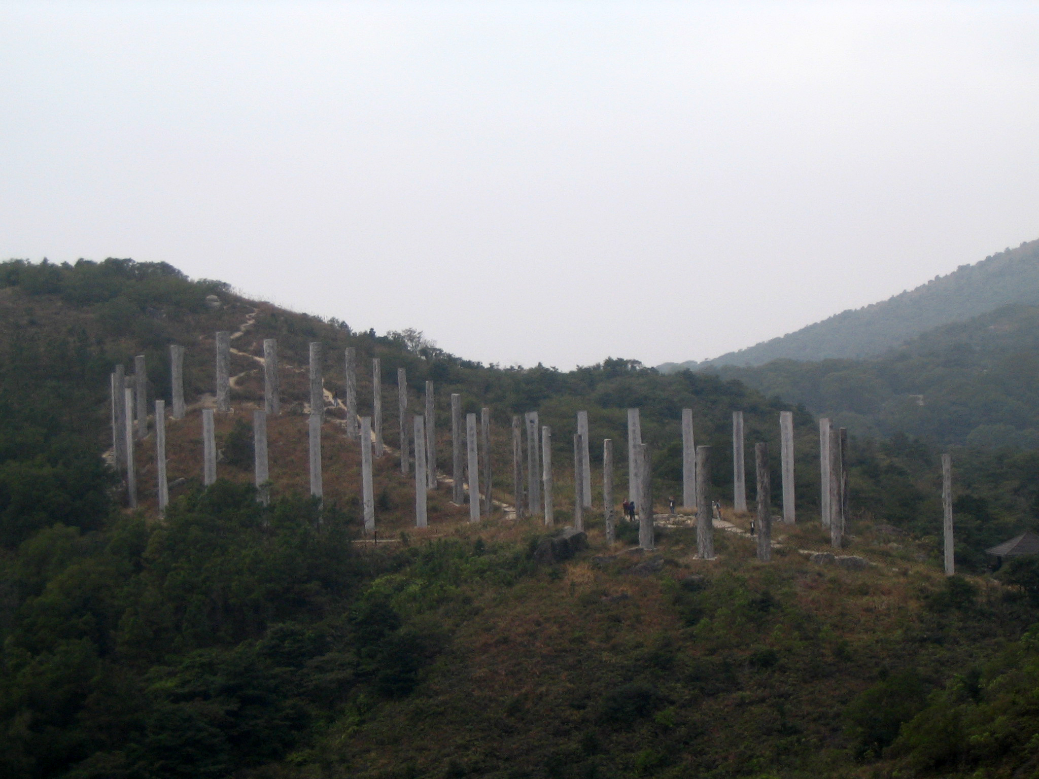 Photo of Wisdom Path